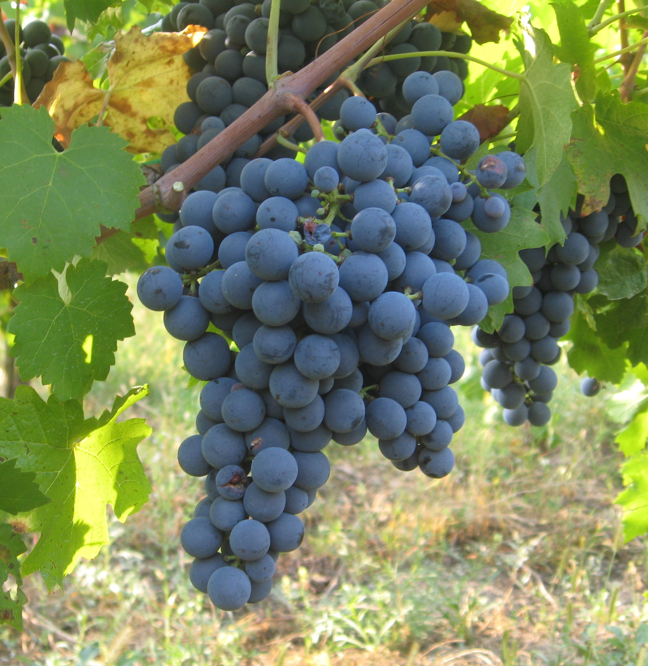 Carmenere grapes grown at Equinox Vineyard, Olanesti, Moldova